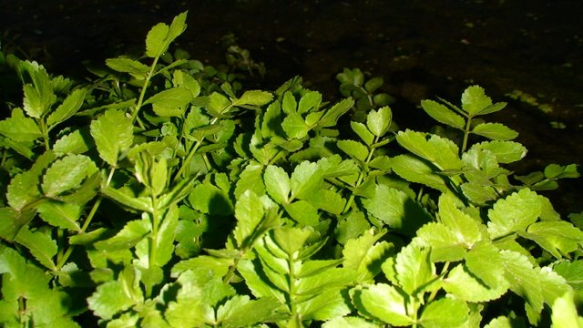 نباتات برية سورية تؤكل